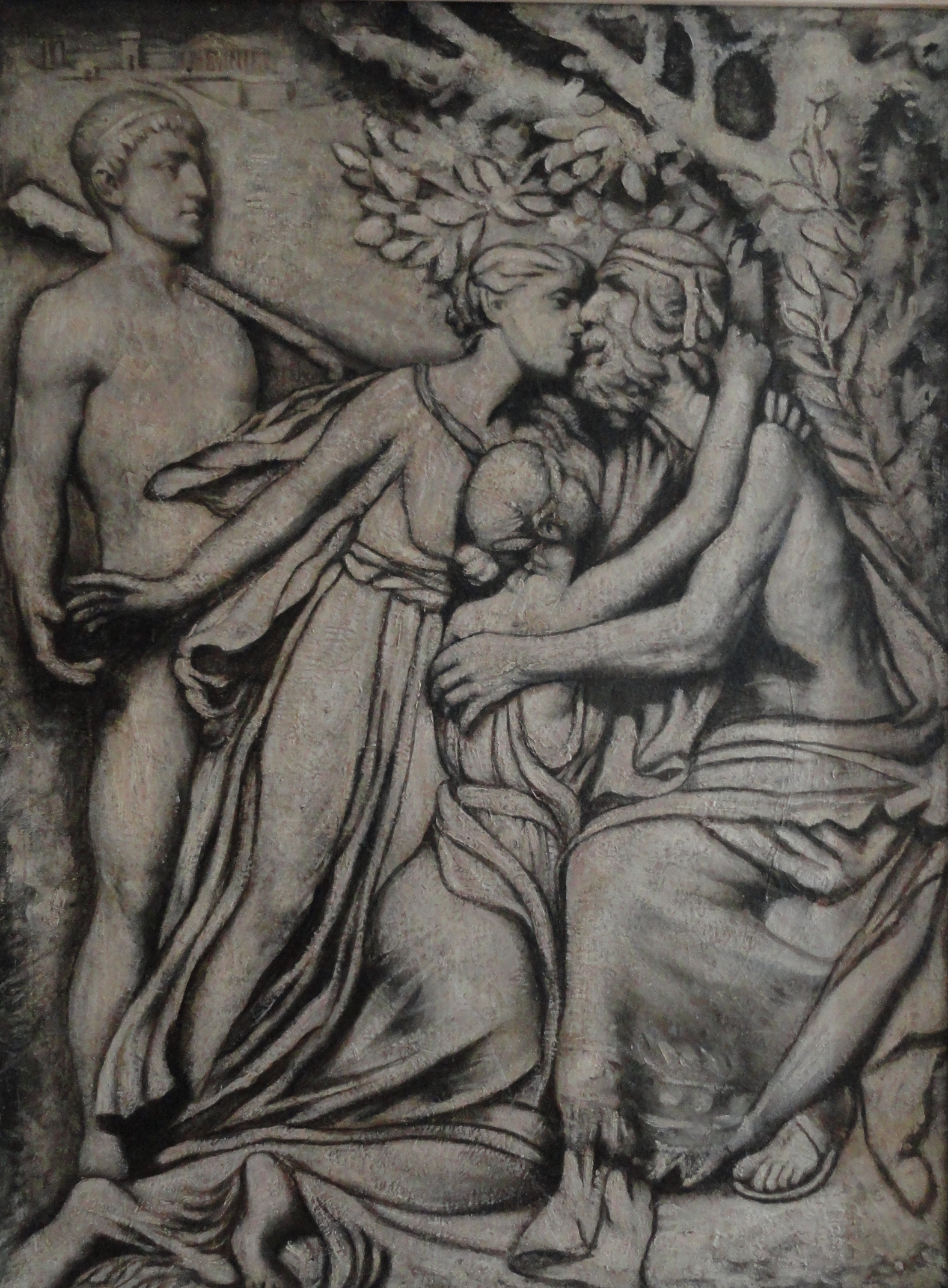 House of Chateaubriand. Illustration of Chateaubriand's book: Les Martyrs